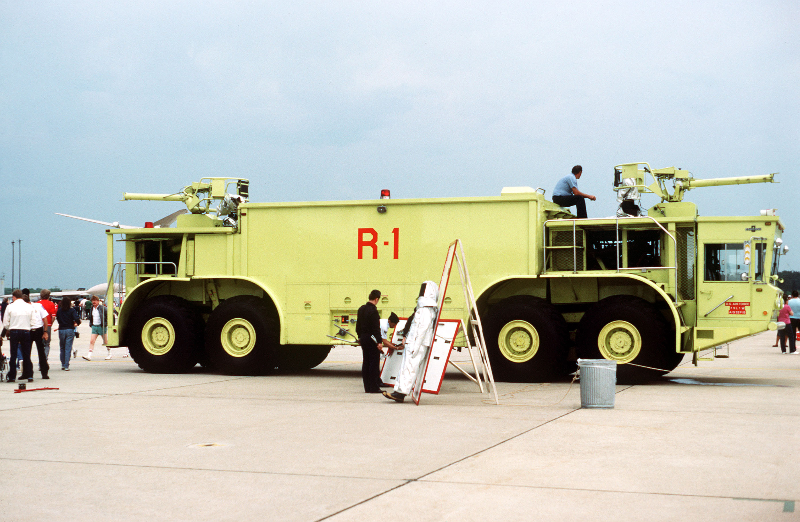 A right side view of a P-15 fire truck on display at the Department of Defense open house air show at Andrews Air Force Base.